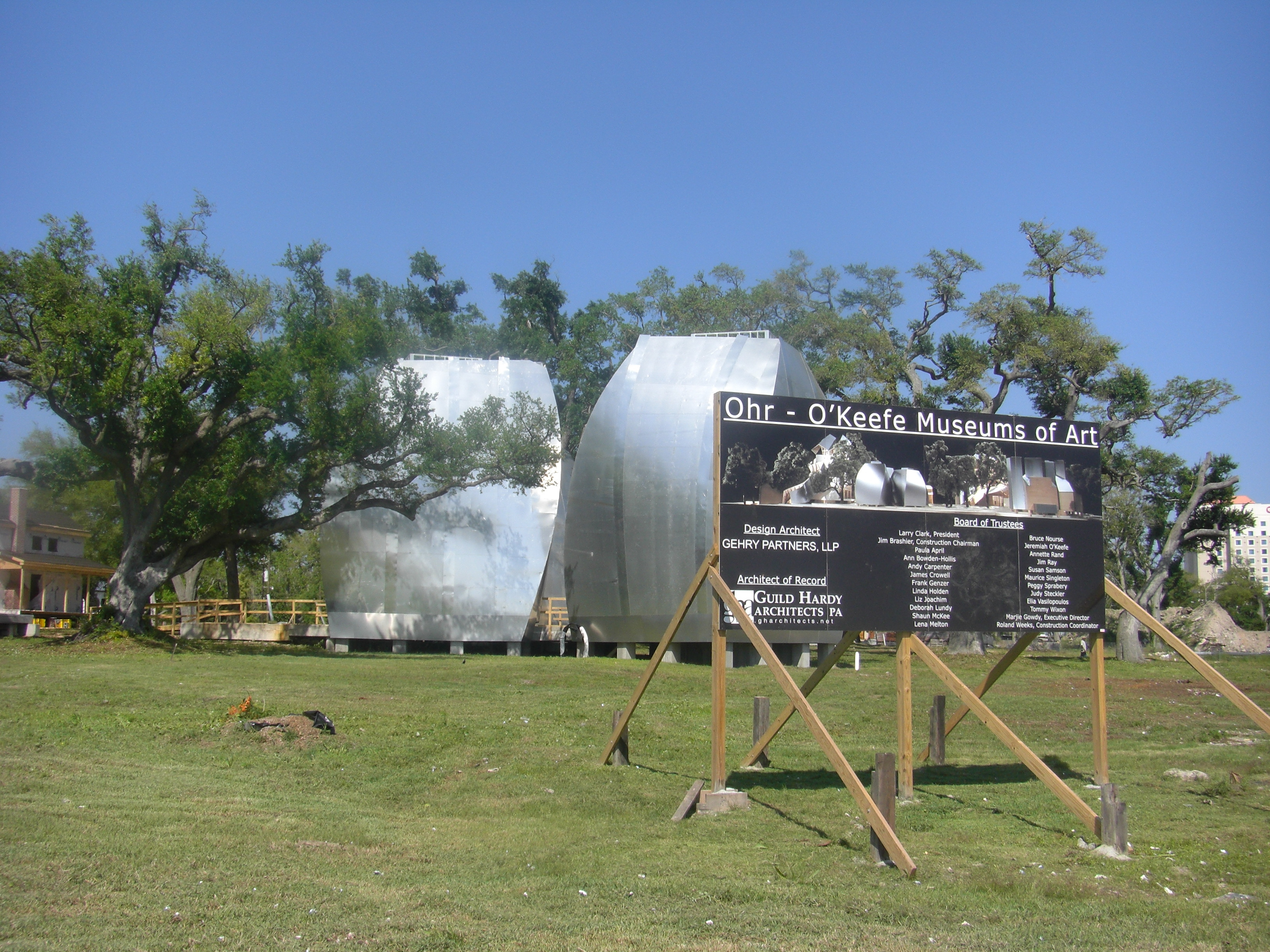 The "pods" of the new Ohr-O'Keefe Art Museum in Biloxi, Mississippi.